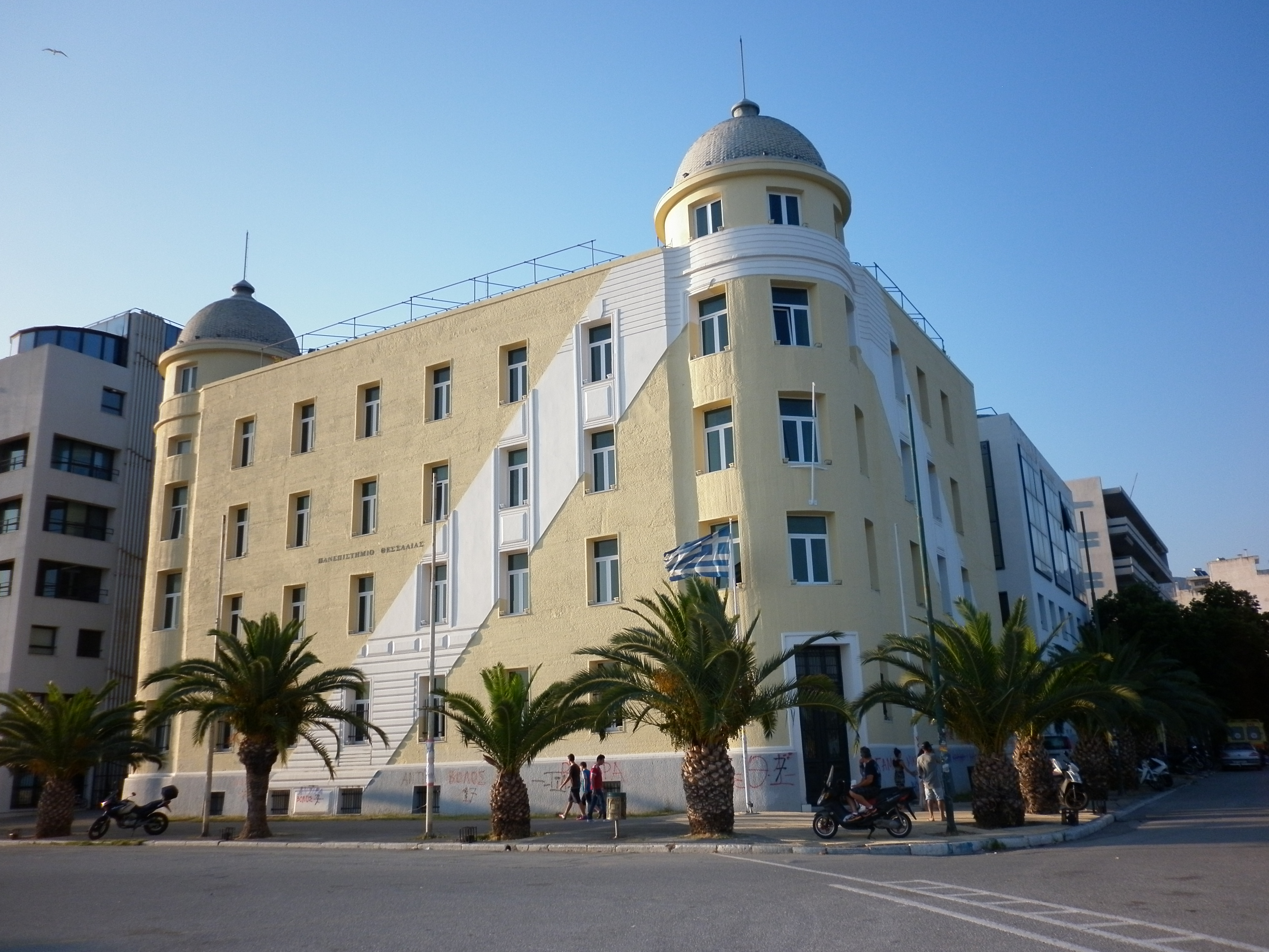 The University of Thessaly buildings at the waterfront of Volos, Greece. (Formerly the Papastratos tobacco warehouse.)